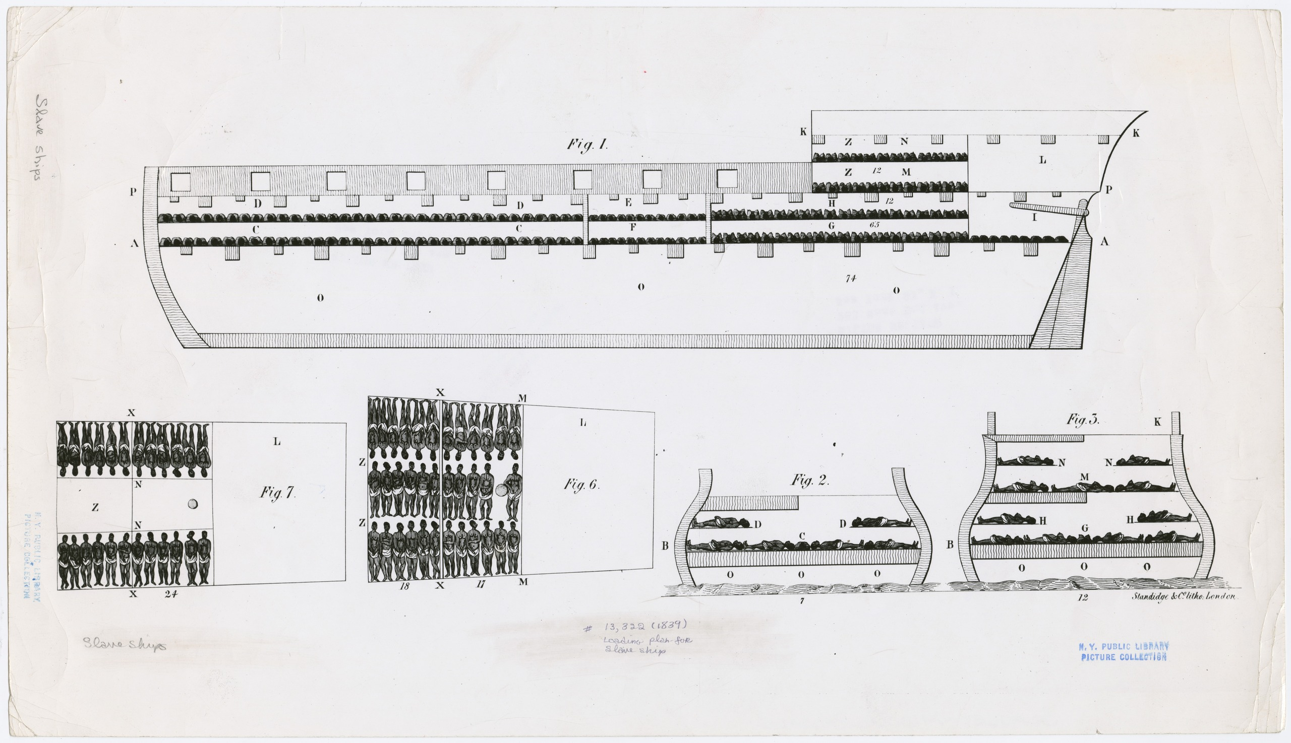 Schematic drawing of an English slave ship, possibly the Brookes, showing the layout of the cargo hold areas for transporting African slaves